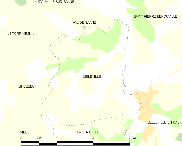 Map of French municipality Imbleville